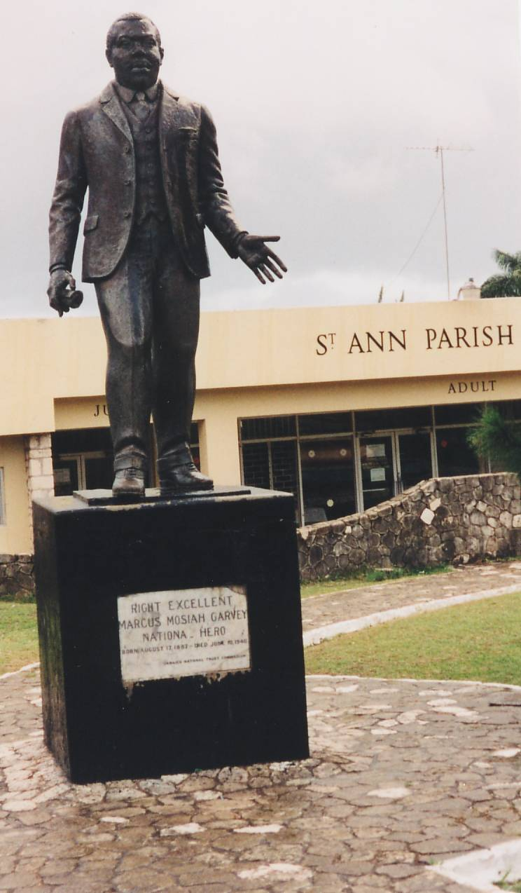 I took this photo of the statue of Marcus Garvey, using my own camera, on January 6, 2011.